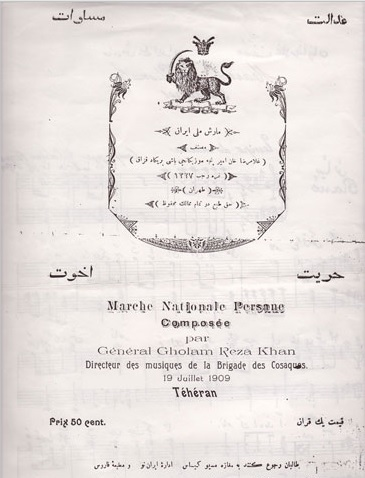 First page of musical note of the old national anthem of Persia (Iran).